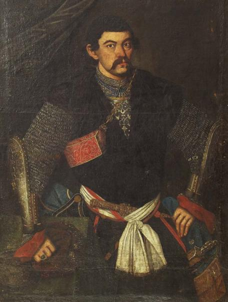 Prince Alexander Imeretinsky